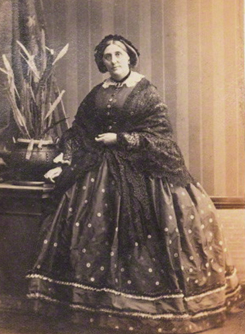 Lady Erica Catherine Farquhar in 1861